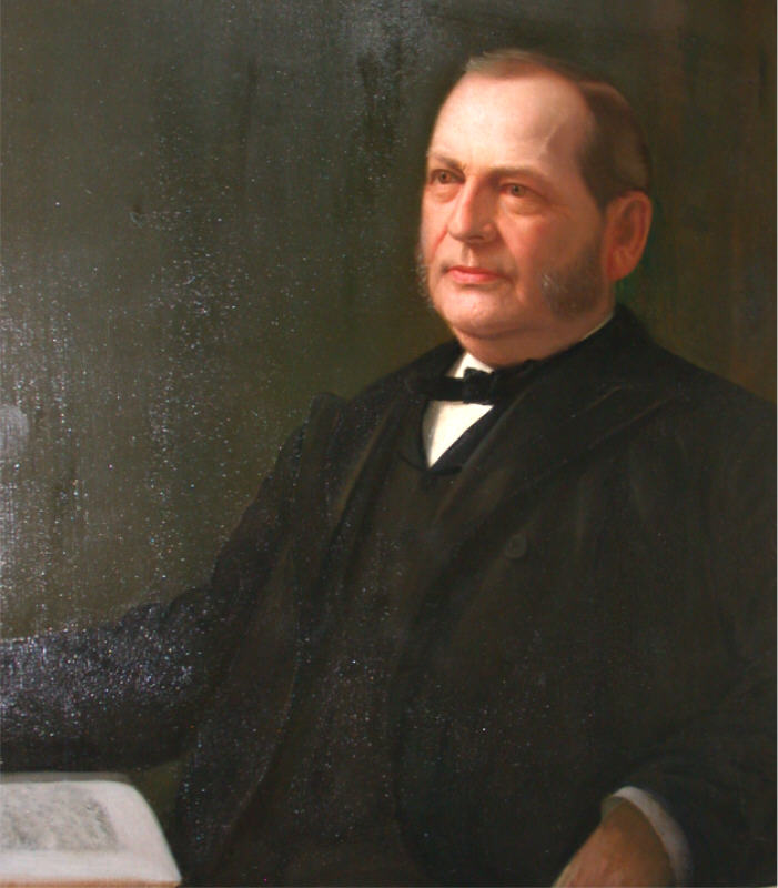 Painted by Théodore Gégoux (1850-1931) Oil on canvas, measuring approximately 34 inches by 26 inches, dated 1903 & signed T. Gegoux